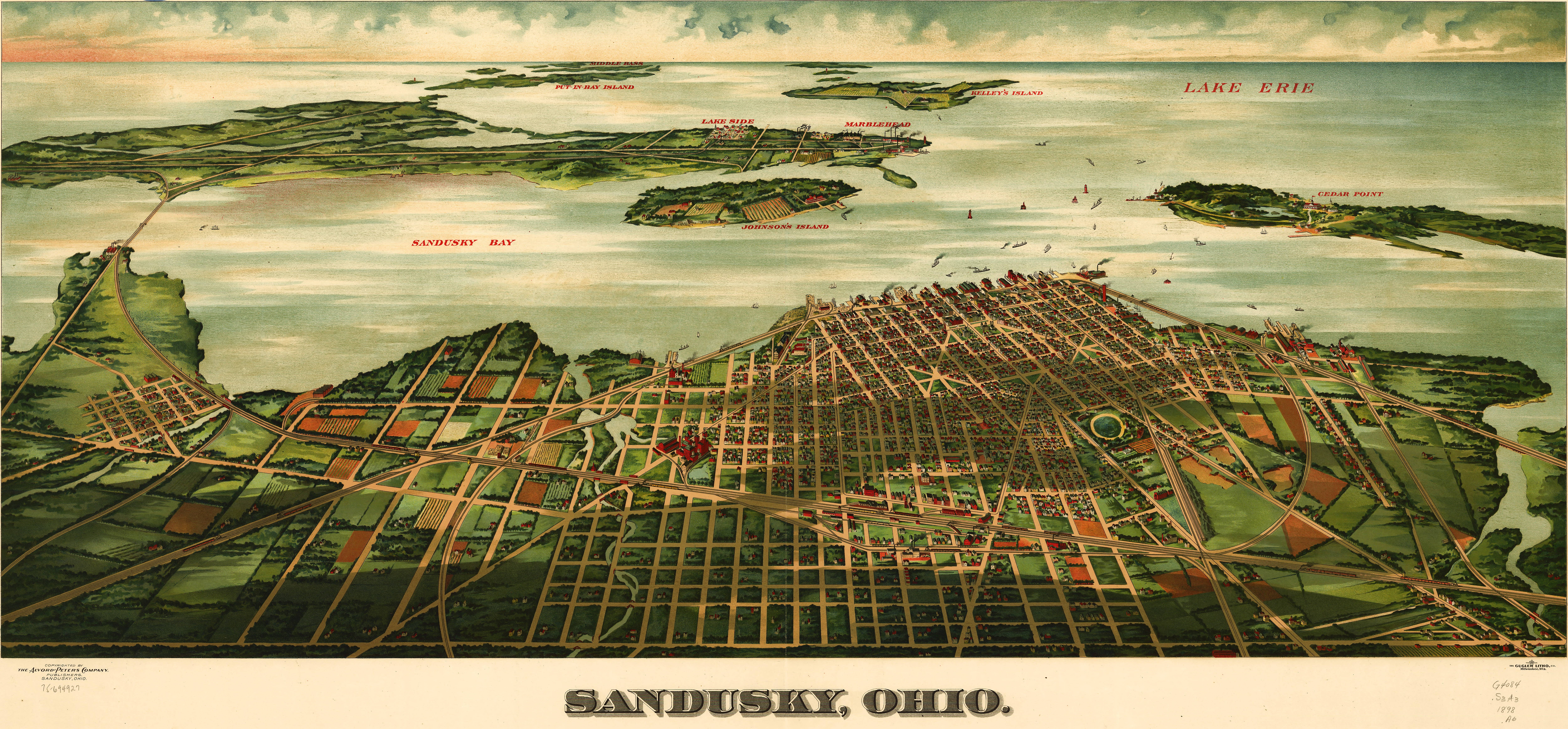 A birdseye view of Sandusky, Ohio c.1898. Perspective map; not drawn to scale.